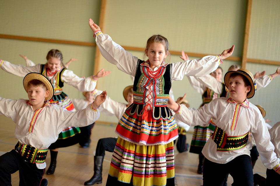 national dance